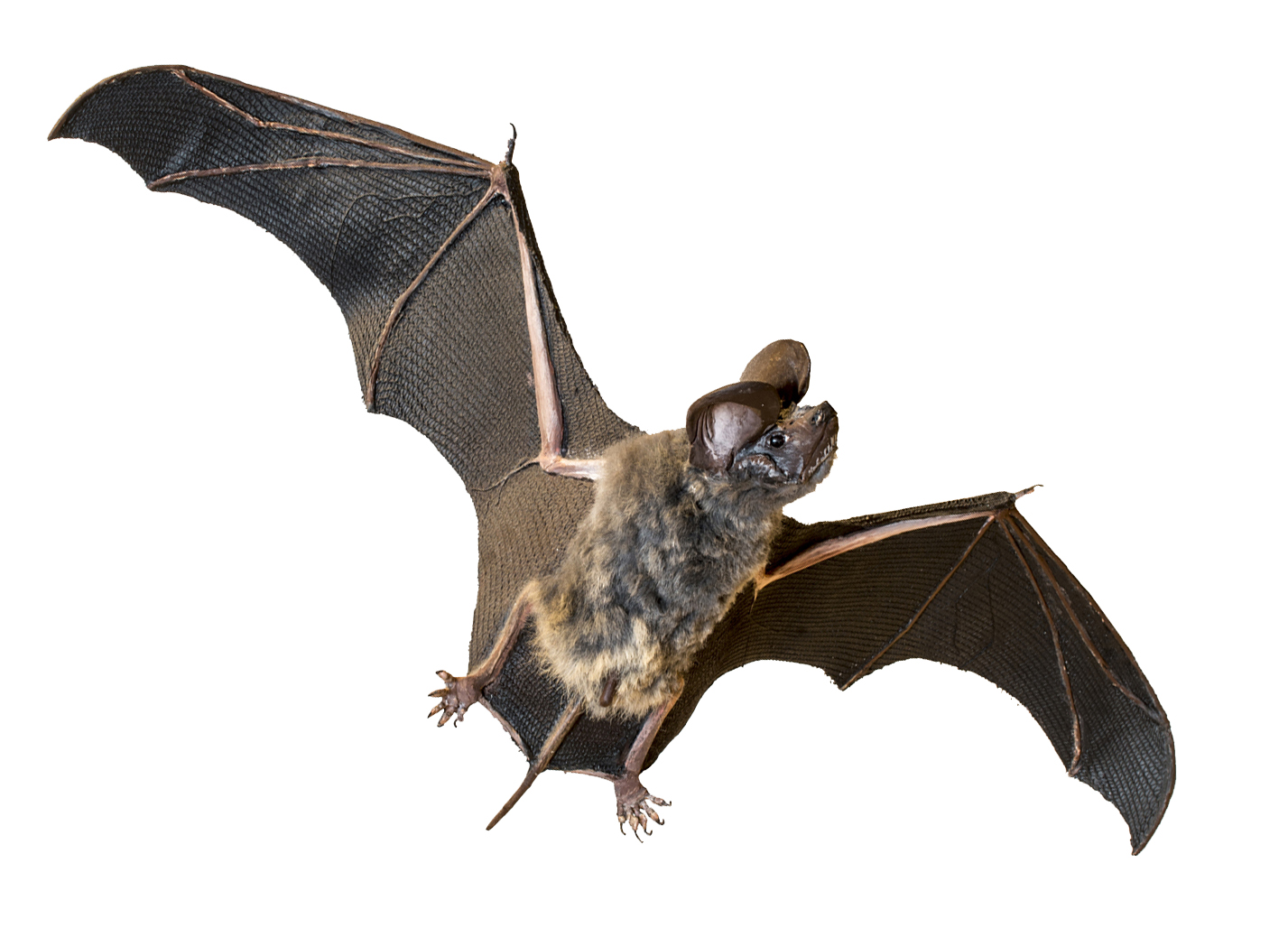 Tadarida teniotis